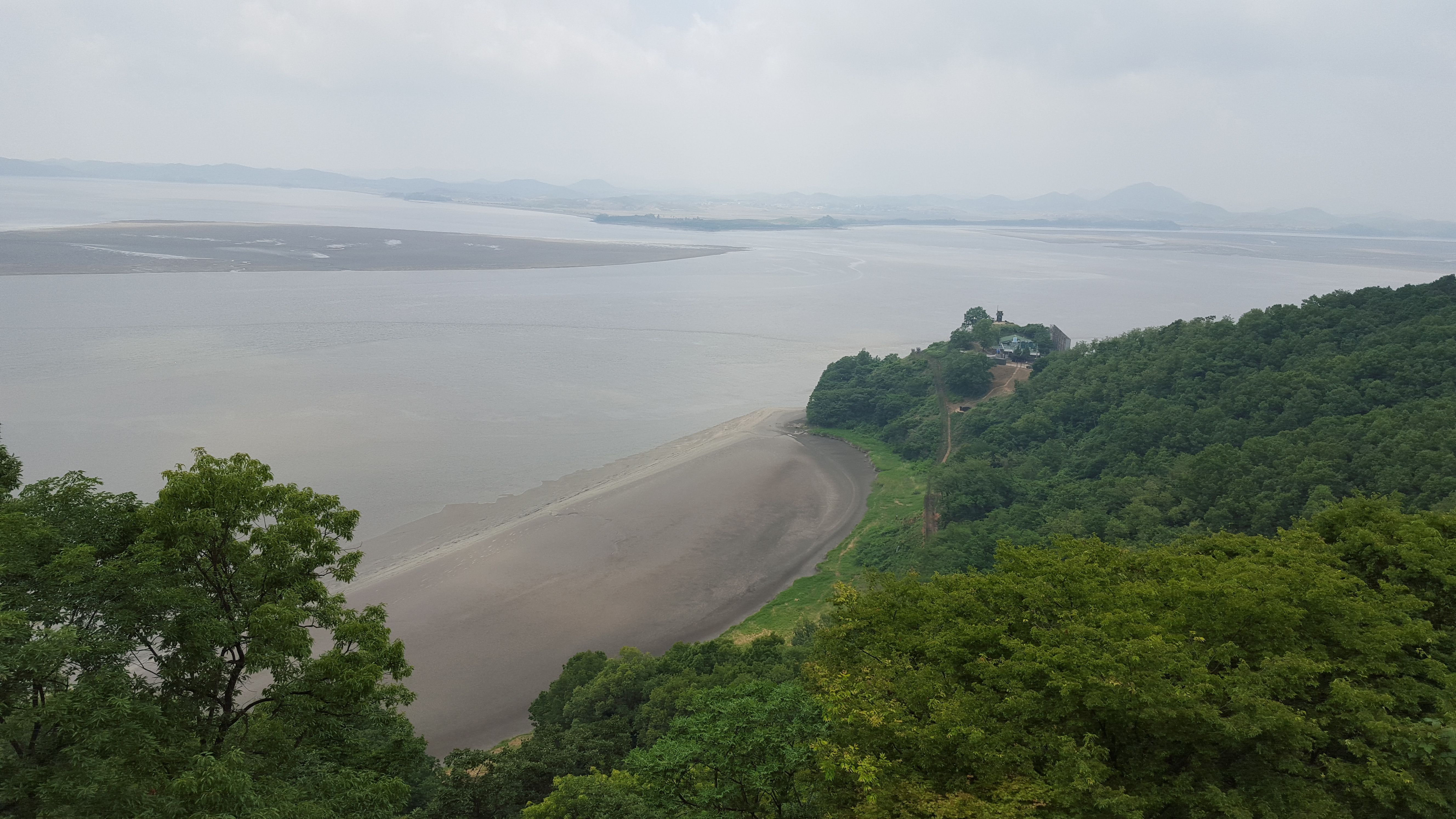 Odusan Mountain Unification Observatory, Paju, South Korea (View from south to north) 한국어 (조선): 대한민국, 파주, 오두산 통일전망대 (북쪽을 향해 촬영)